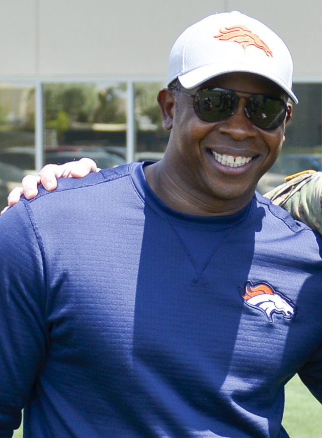 Select members of the Coloado National Guard attended the Denver Broncos 2018 Minicamp Luncheon June 12 at UCHealth Training Center in Englewood, Colorado. The service members were treated to a VIP experience that included a catered lunch, access to watch a practice session and a meet-and-greet with Broncos players and coaches. (National Guard Photo by Army Sgt. Zach Sheely/Released)